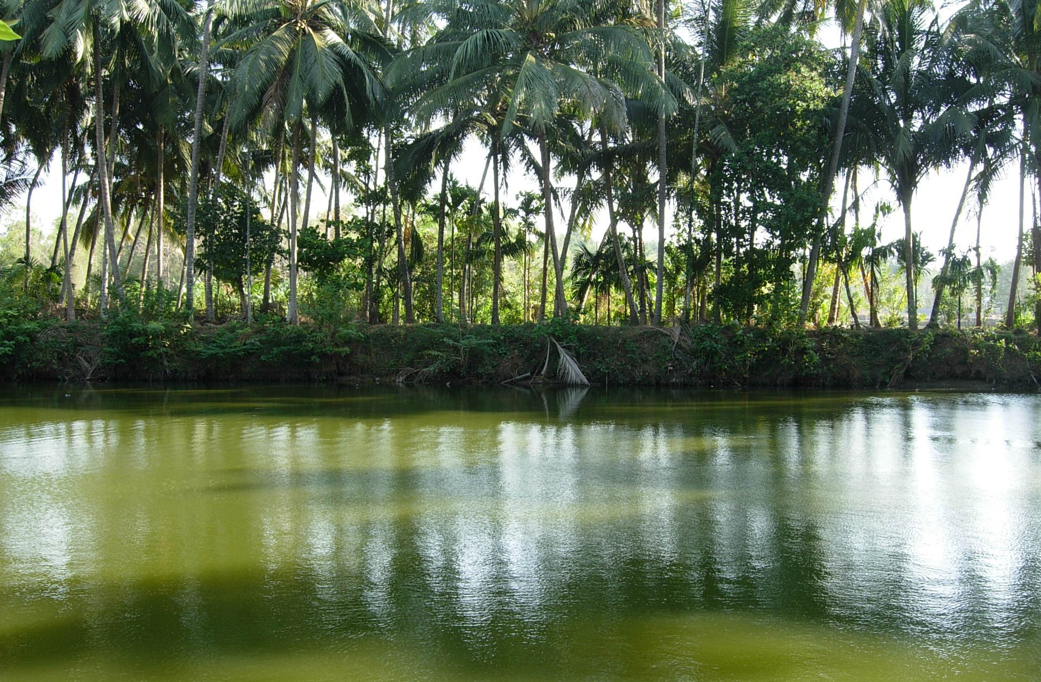 Temple-pond (known as an ambalakkulam) associated with Killikkurussi Mahadeva Temple. This Shiva temple situated at Killikkurussimangalam village in the Palakkad district. All major Hindu temples will have a nearby sacred pond or pool to be used by the pilgrimages to take holy bath.